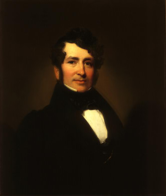 George Pope Morris (1802-1864). Oil on Canvas